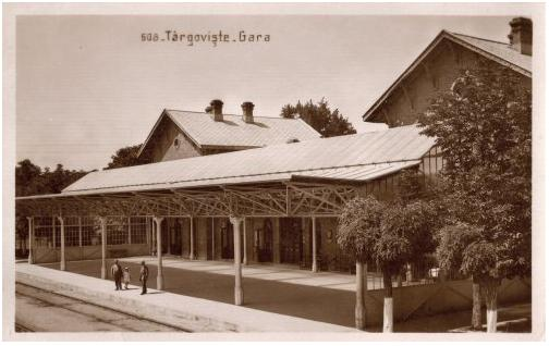 A view of Targoviste railway station since 1930